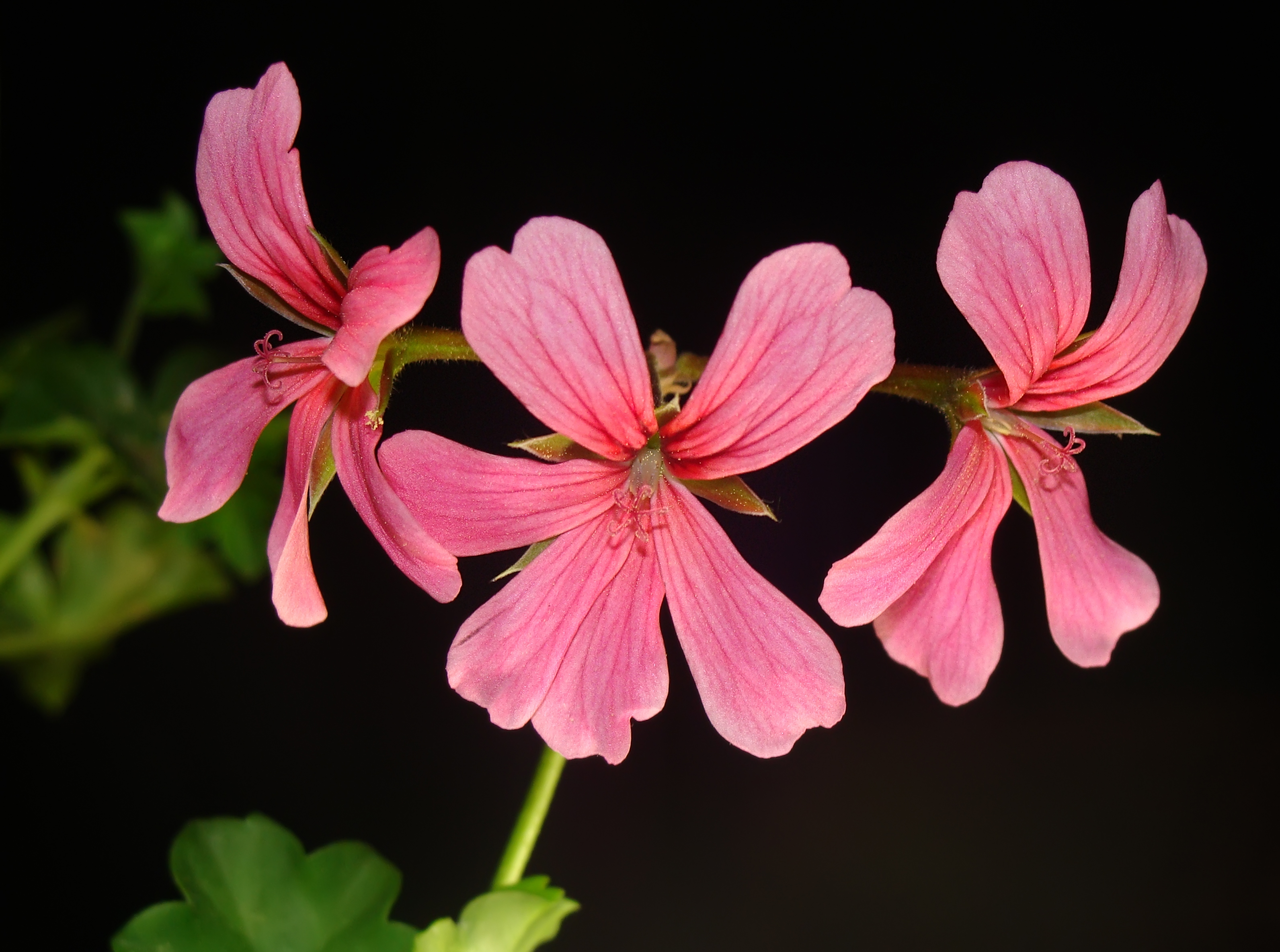 Blooming flowers of genus Pelargonium, family Geraniaceae, species Pelargonium peltatum, (commonly known as balcony geranium)